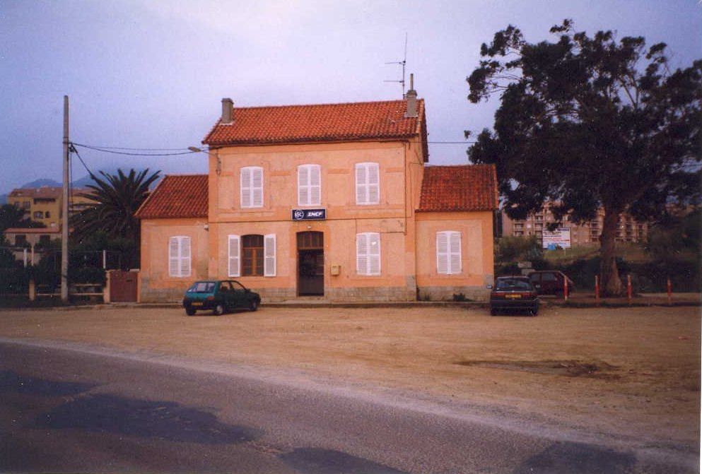 The station of L'Île-Rousse of the corsean railways, France.